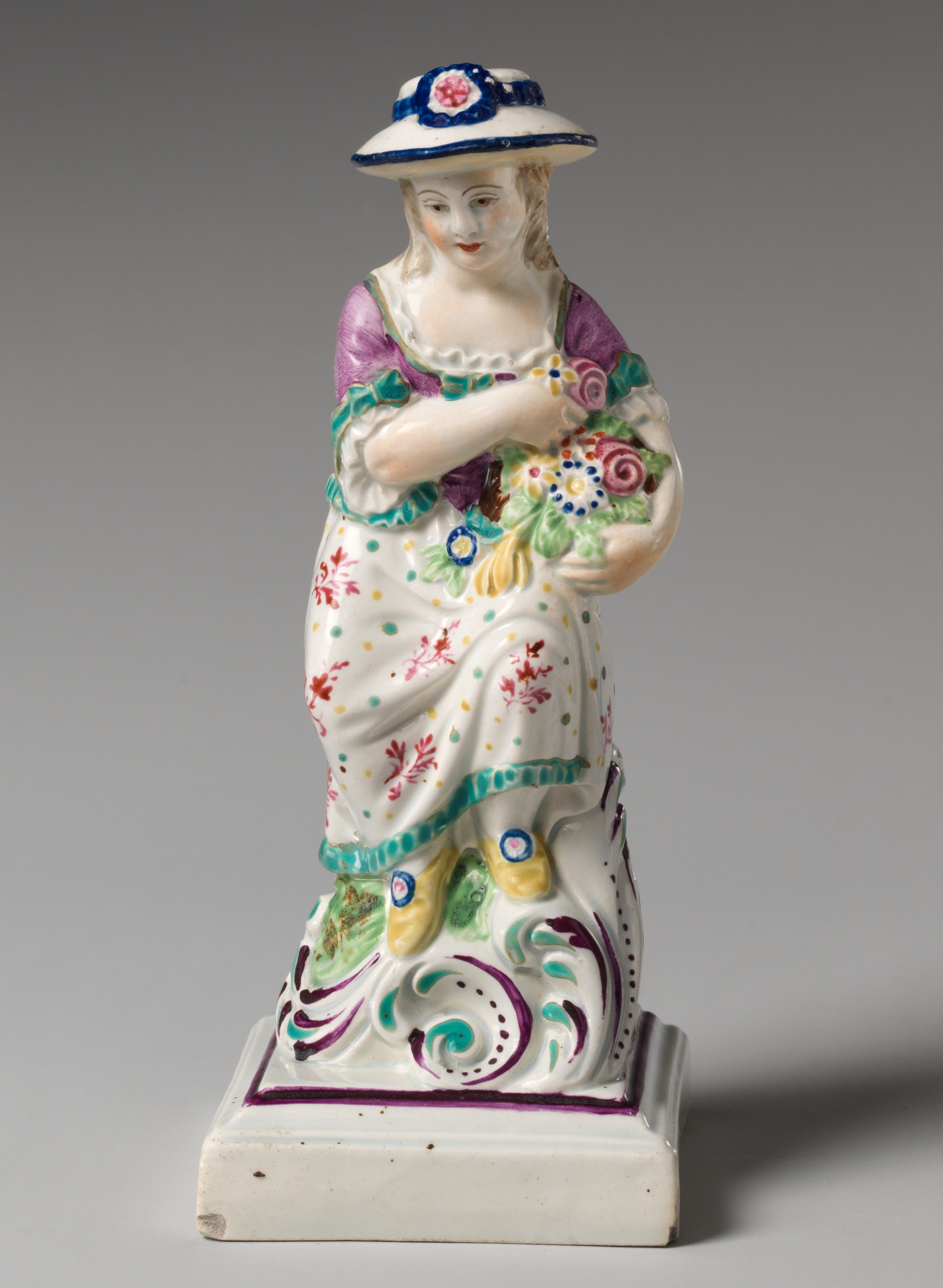 British, Hanley, Staffordshire; Figure; Ceramics-Pottery